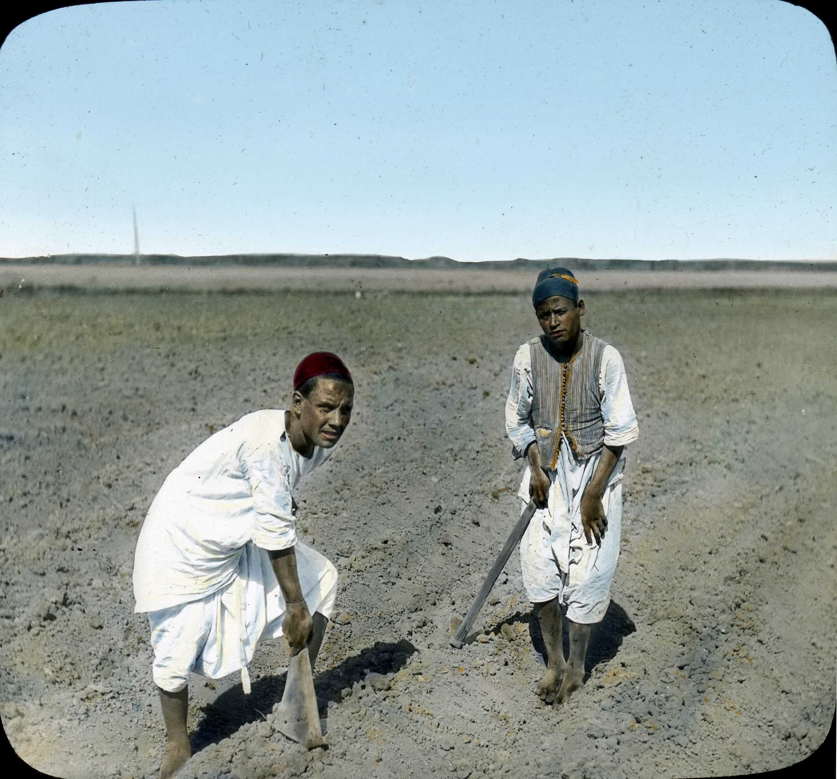 Lantern Slide Collection: Views, Objects: Egypt. General Views\People [selected images]. View 009: Egypt - Fellahin in the Fields, Cairo., n.d., T. H. McAllister, Manufacturing Optician. 49 Nassau Street, New York. Joseph Hawkes. Brooklyn Museum Archives (S10|08 General Views_People, image 9752). Help us map this image by using Suggestify to suggest a location for it.